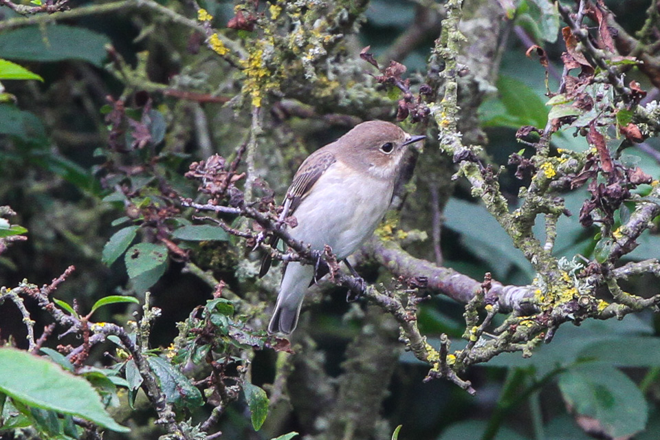 Pied Flycatcher Ficedula hypoleuca, female or juvenile; one of 3 Seaford Head, Sussex, UK.